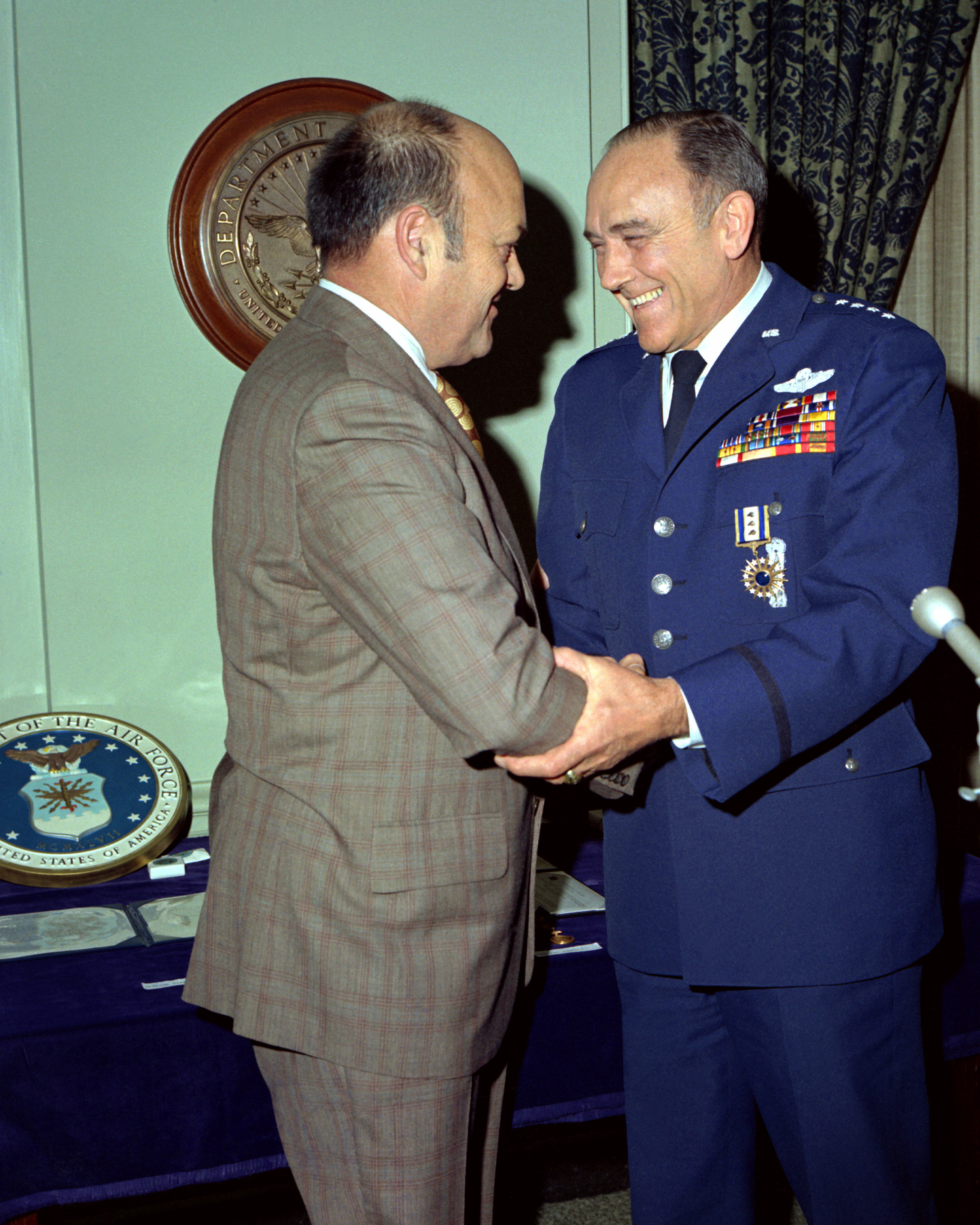 U.S. Secretary of Defense Melvin Robert Laird presenting U.S. Air Force Chief of Staff General John Dale Ryan with Distinguished Service Medal (Air Force) at The Pentagon January 15, 1973.